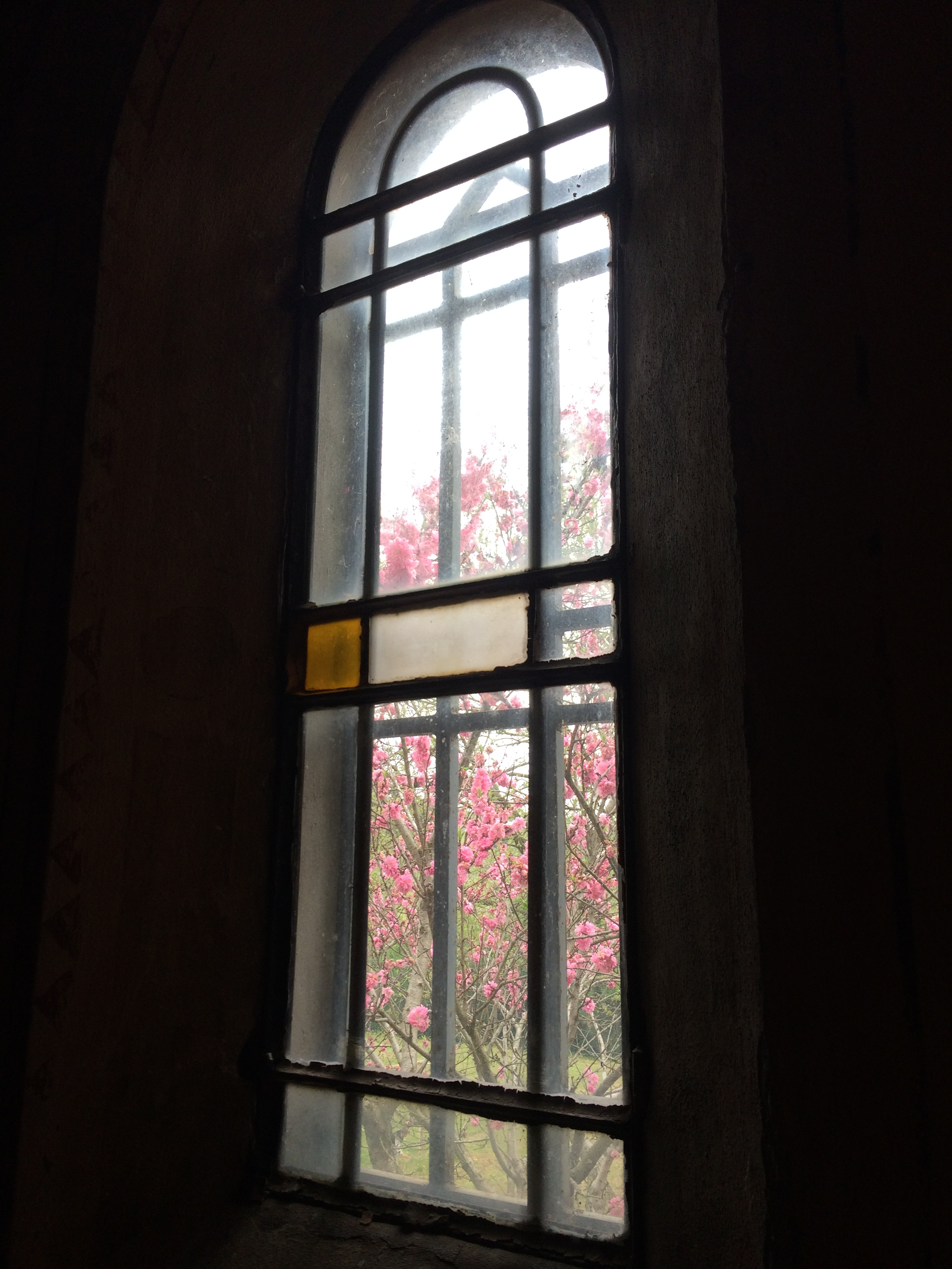 aa